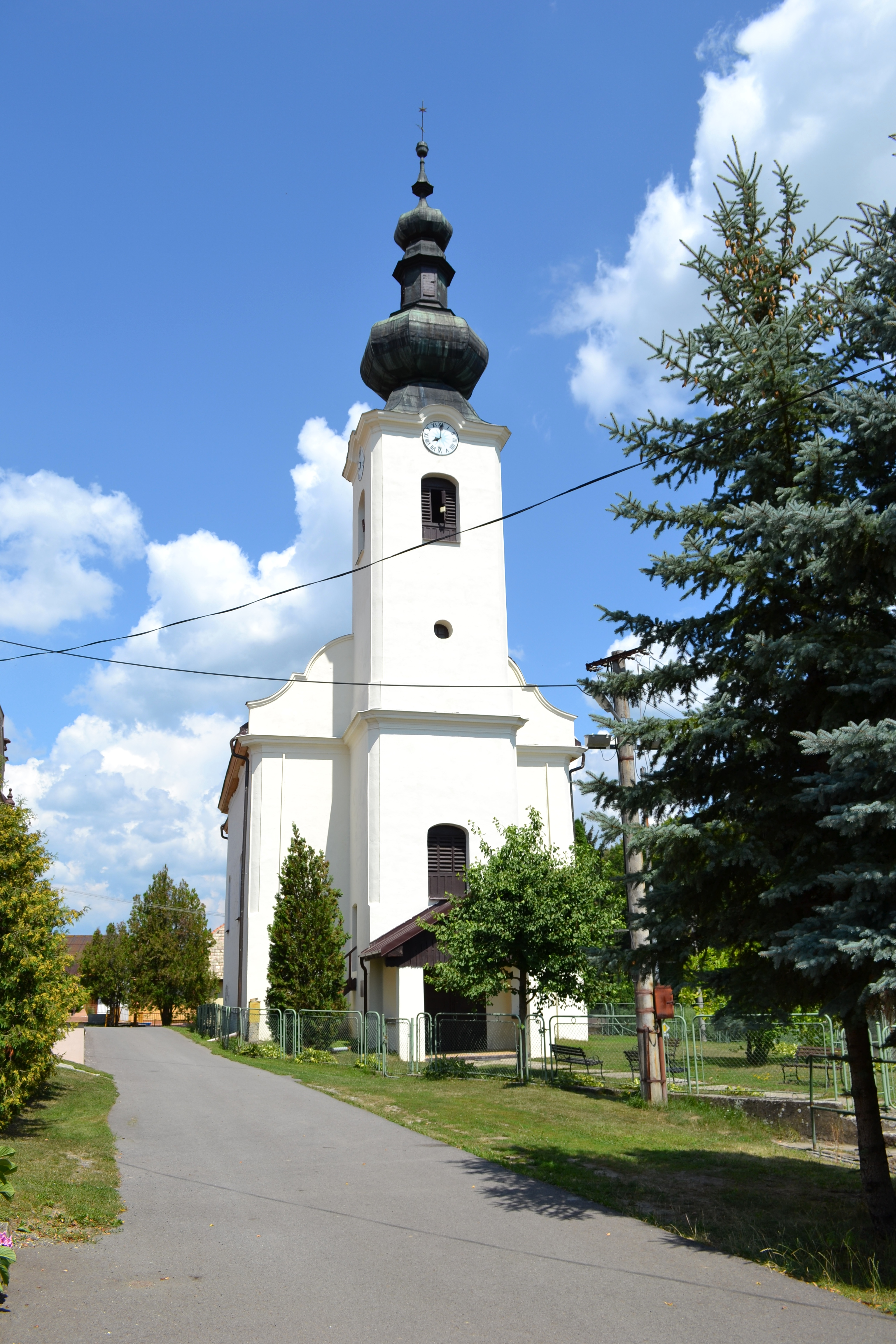 Evangelical Church in Poltár, built in 1791